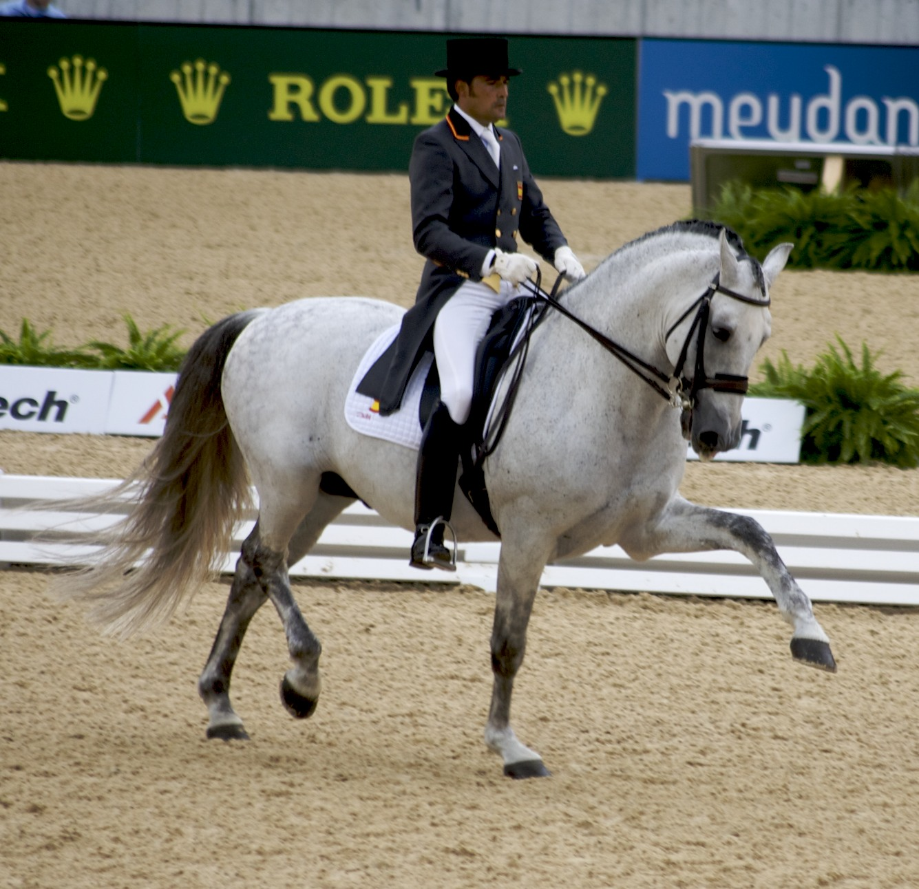 Jose Antonio Garcia Mena and Norte from Spain. Dressage Qualifying WEG 2010